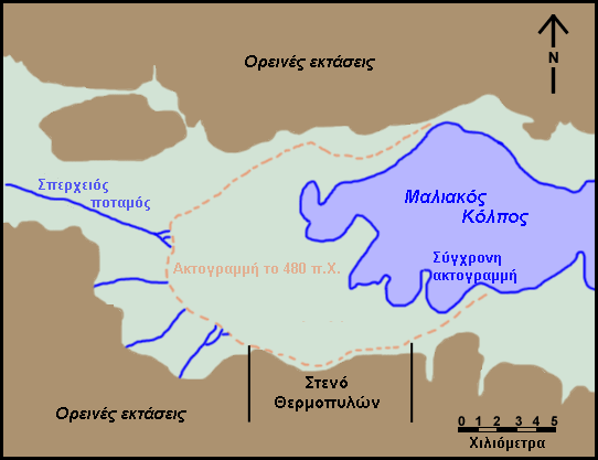 Map of Thermopylae area with modern shoreline and reconstructed shoreline of 480 BC. Loosely based on figure 3.19 in Geoarchaeology: The Earth-science Approach to Archaeological Interpretation, p. 96. George Robert Rapp, Christopher L. Hill. Yale University Press, 2006. ISBN 0300109660